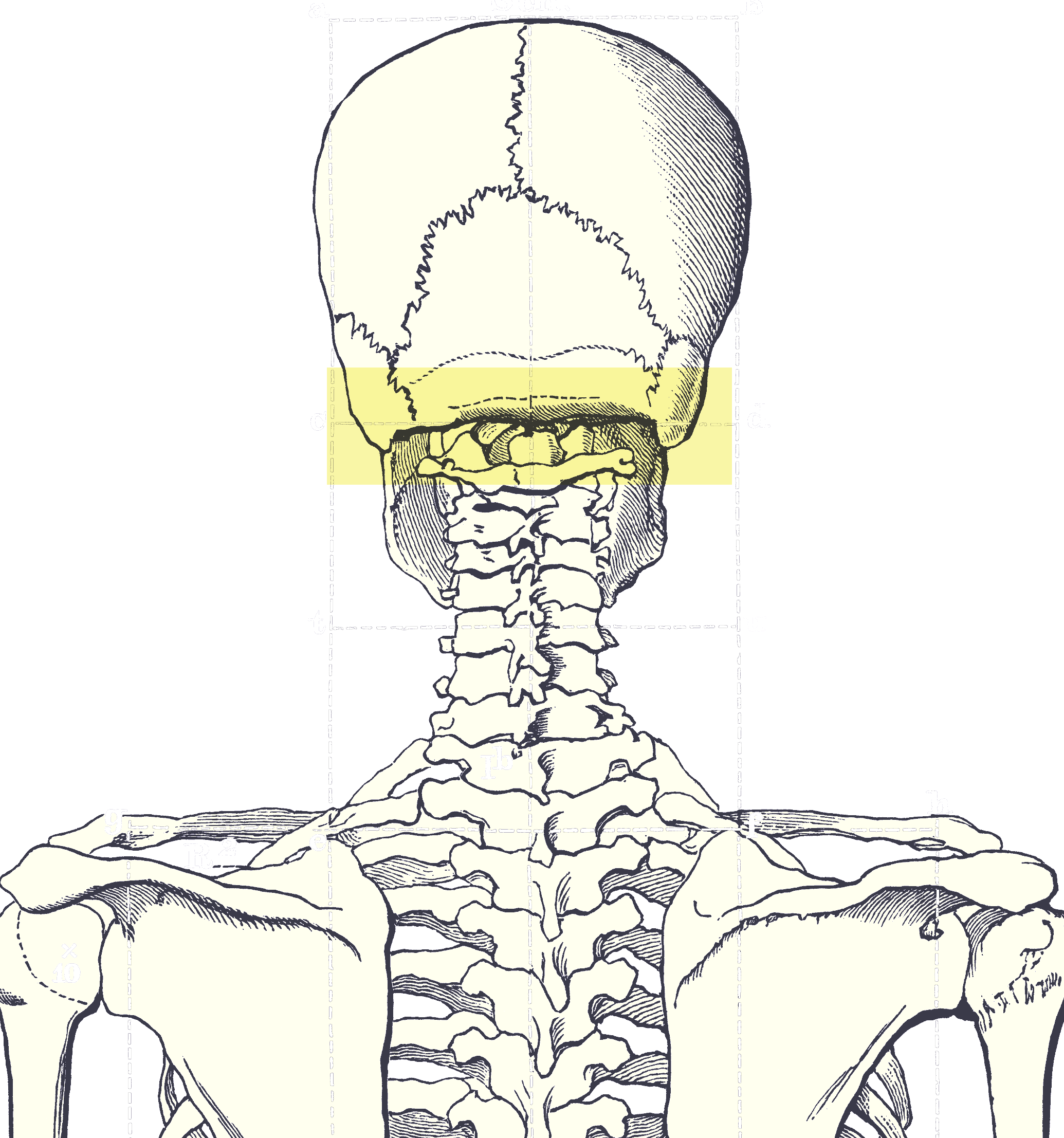 a simple diagram for locating the Occipital ridge.